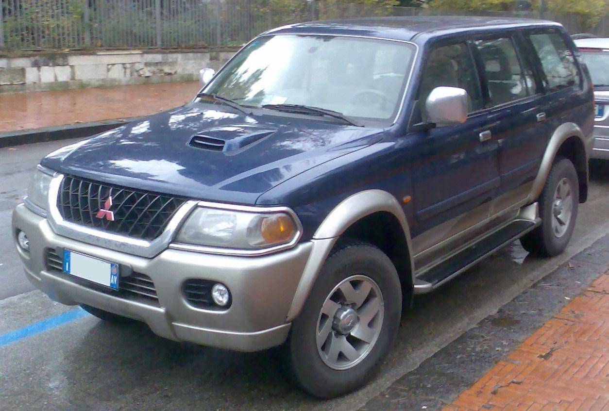 Mitsubishi Pajero Sport